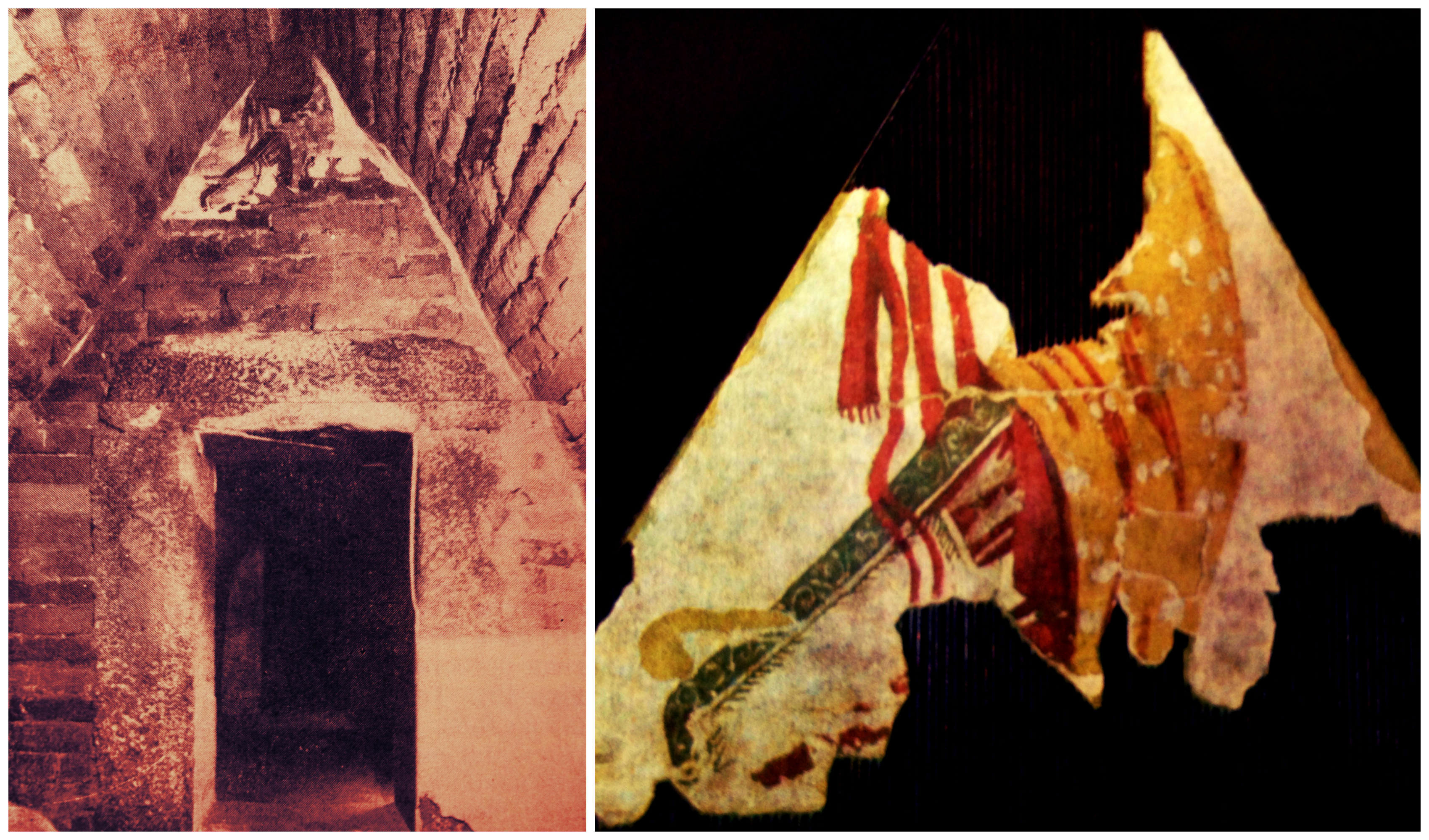 Entrance and Frescos at Maglidzh Tomb Bulgaria